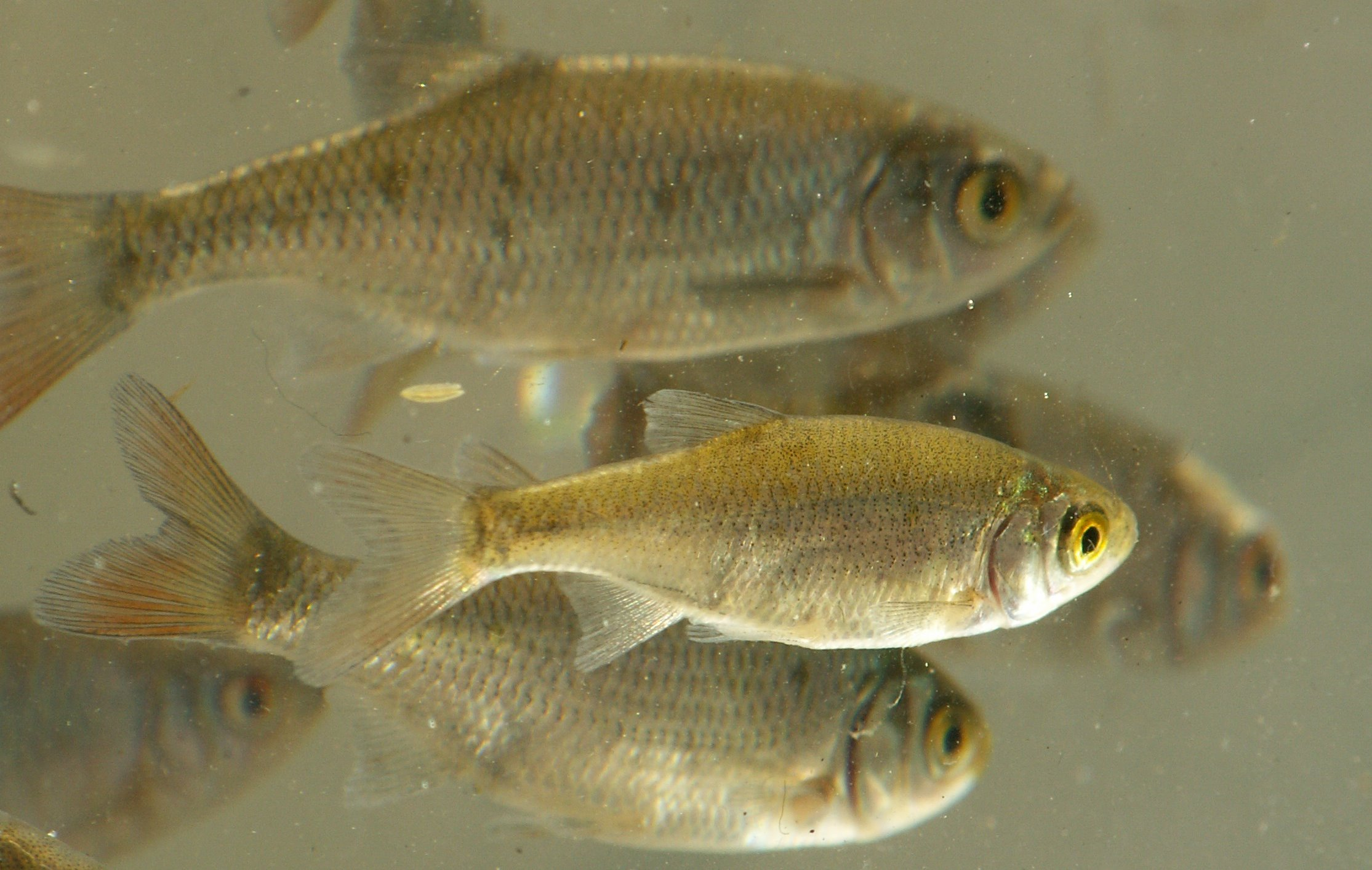 Three juvenile rudd, notice the yellow eye, typical body shape and the lack of color on the fins except for the bottom half of the tail fin. Wageningen, The Netherlands